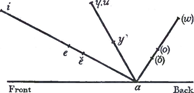 An image from Morris-Jones's Welsh Grammar